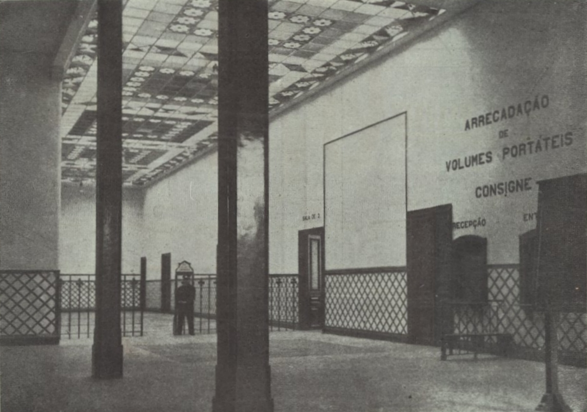 Entrance to the waiting rooms, inside the Rossio railway station, in the city of Lisbon, in Portugal. This image was originally published in the Gazeta dos Caminhos de Ferro No. 1294, of the 16th November 1941, and scanned by the Hemeroteca Municipal de Lisboa.